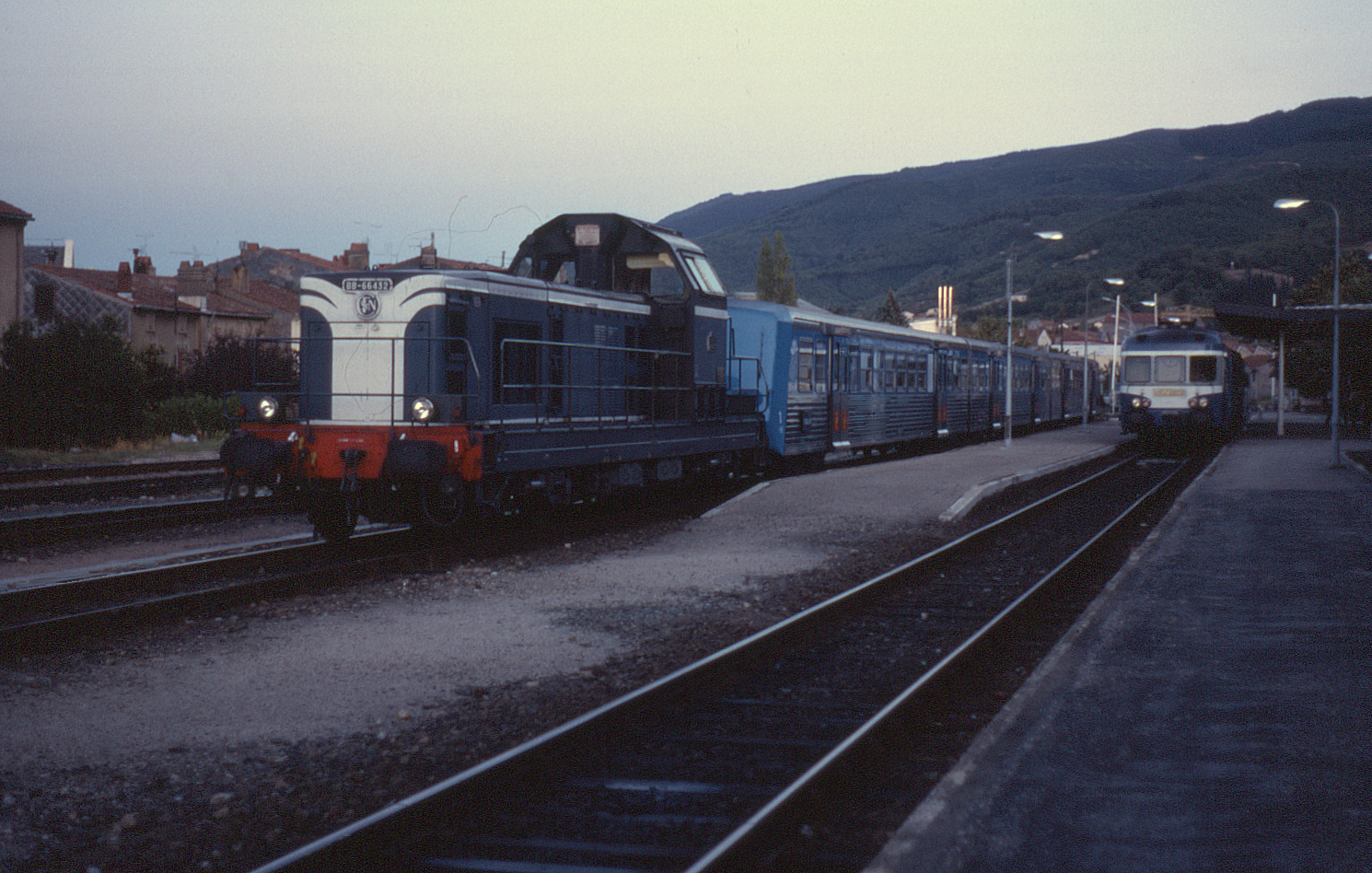 French branch line terminus of Mazamet on the evening of 30 August 1989. To the left is BB 66432 stabled on a push-pull set. To the right is railcar X 2876 waiting to depart on train 98896, 21:04 Mazamet to Toulouse-Matabiau.